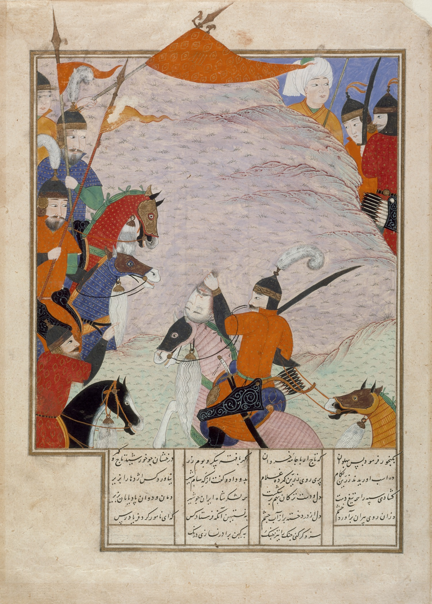 Iran, Gilan, circa 1494 Manuscripts Ink, opaque watercolor, and gold on paper The Edwin Binney, 3rd, Collection of Turkish Art at the Los Angeles County Museum of Art (M.85.237.71) Islamic Art Currently on public view: Ahmanson Building, floor 4